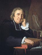 Portrait of French scholar Claude Capperonnier (1671-1744)